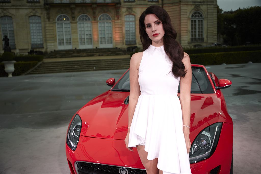 Brit and Ivor Novello award winner Lana Del Rey today released the video for ‘Burning Desire’. It was written and composed by the singer songwriter and will feature as the title track to a special film called ‘Desire’ starring Golden Globe winner Damian Lewis, which has been created by Jaguar and the award winning producers Ridley Scott Associates.